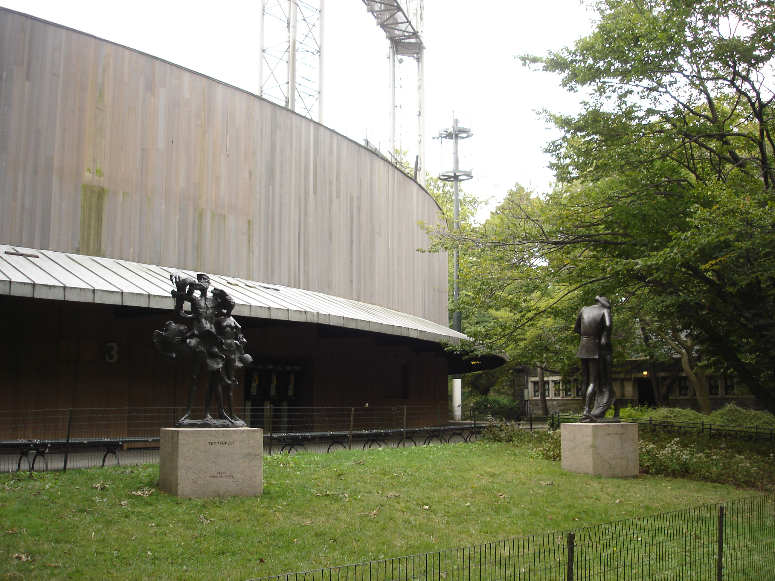 I am happy that you found my picture :) Hope you have some time to visit my blog goo.gl/yZr1OO. Enjoy great photos from Central Park in Manhattan, New York City, United States of America. See some of the most popular places and most famous monuments :)